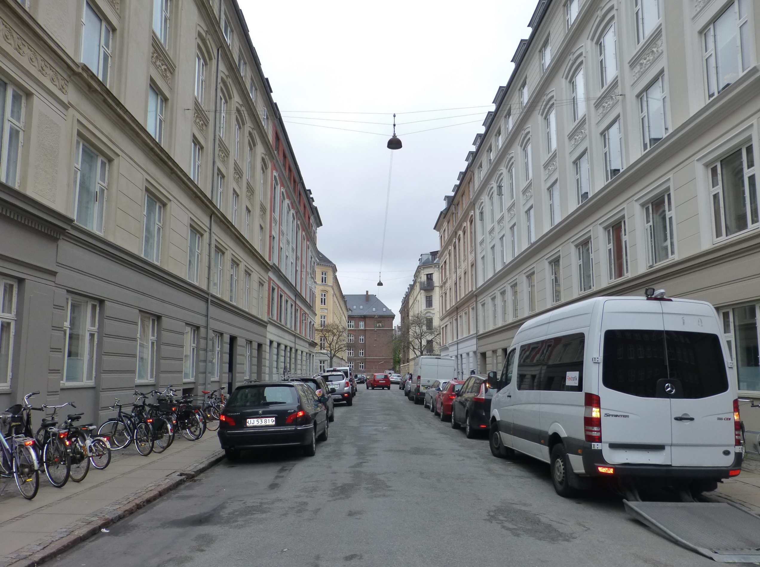 The street Aggersborggade in Østerbro in Copenhagen.